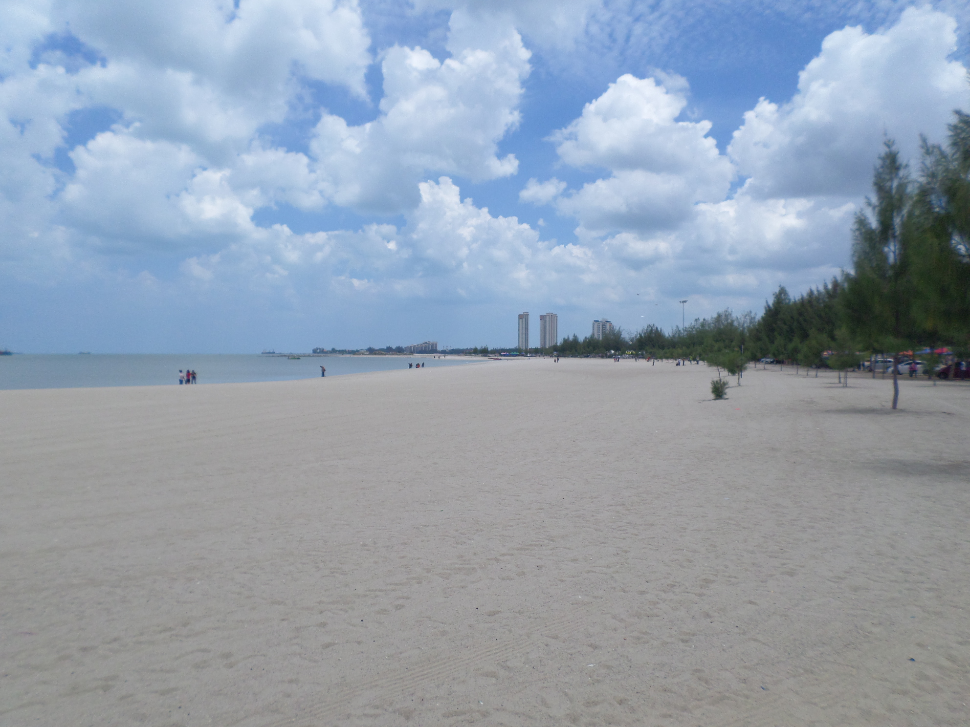 Klebang Beach, Klebang, Malacca, MalaysiaBahasa Melayu: Pantai Klebang, Klebang, Melaka, Malaysia